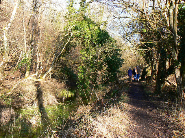 Towpath, Thames and Severn canal, near Frampton Mansell This is a view east along the towpath towards Daneway and its eponymous inn.